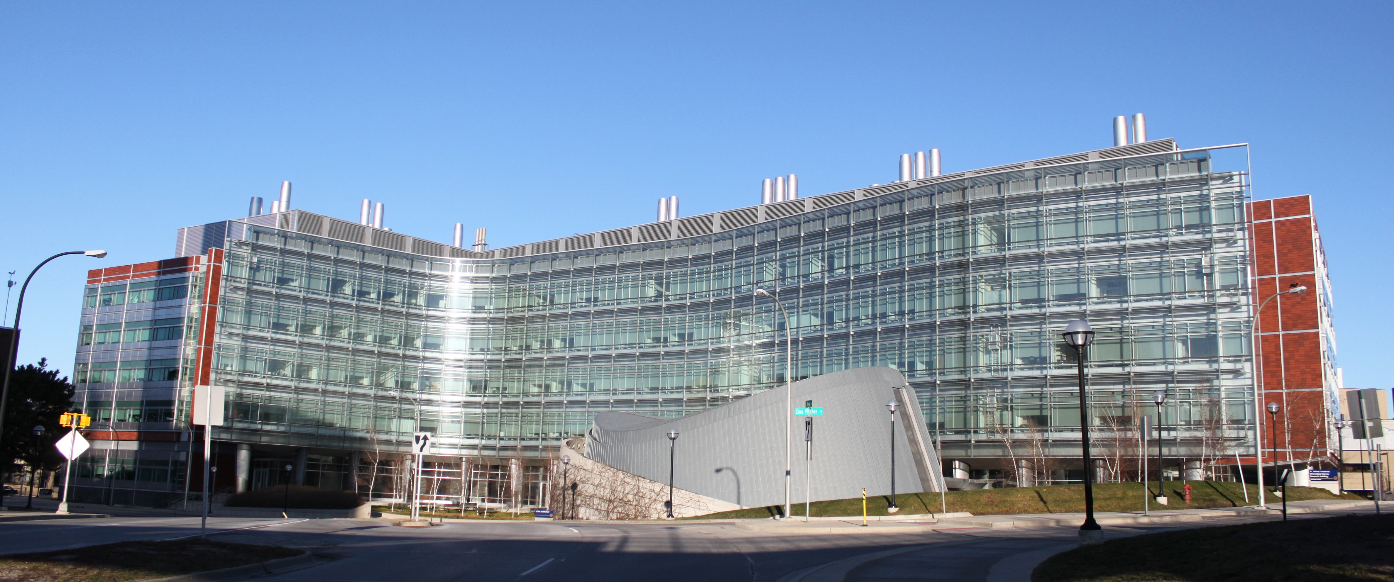 A. Alfred Taubman Biomedical Science Research Building, University of Michigan, 109 Zina Pitcher Place, Ann Arbor, Michigan